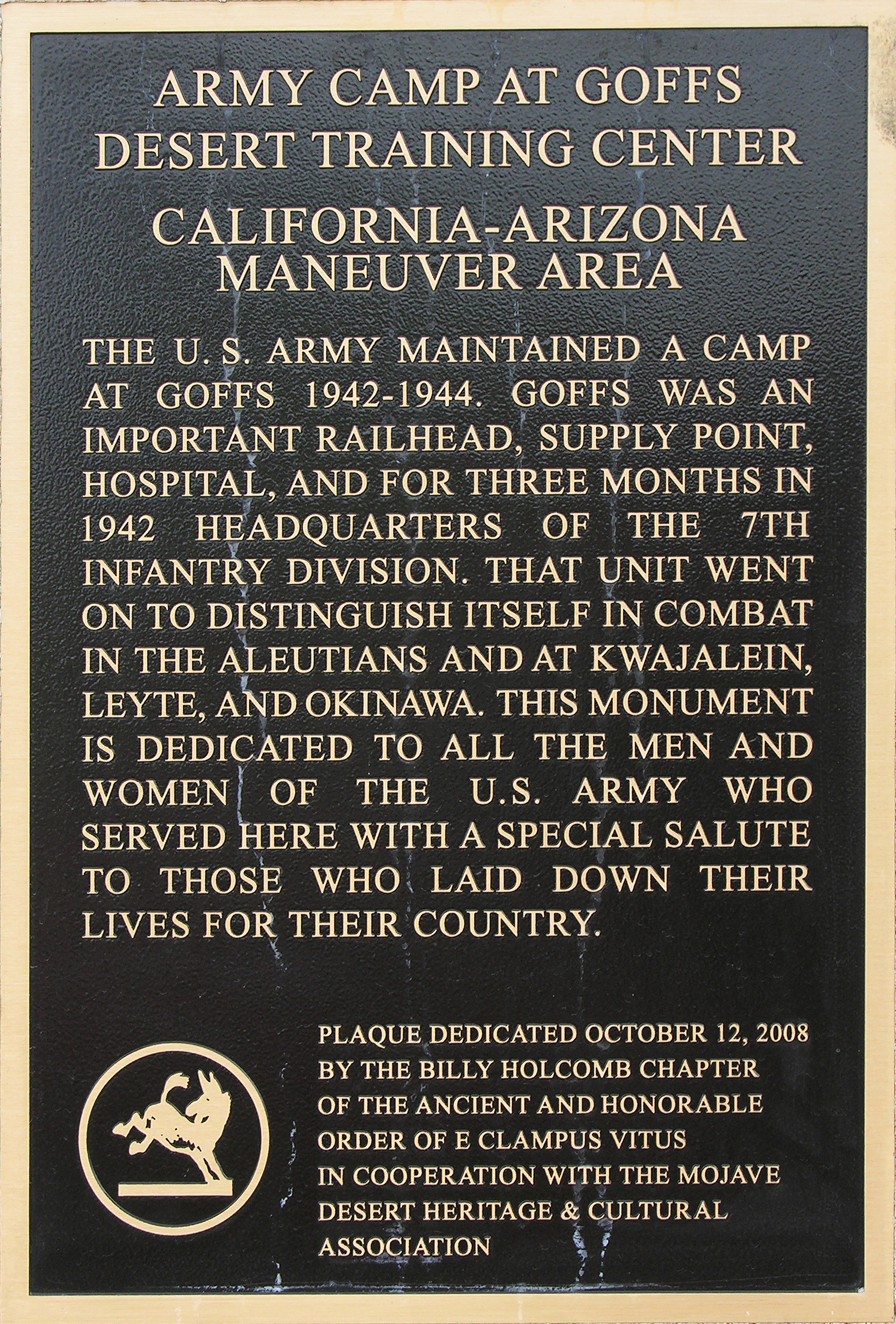 Plaque commemorating the Desert Training Center, California-Arizona Maneuver Area, former Army Camp Goffs, Mojave Desert, California